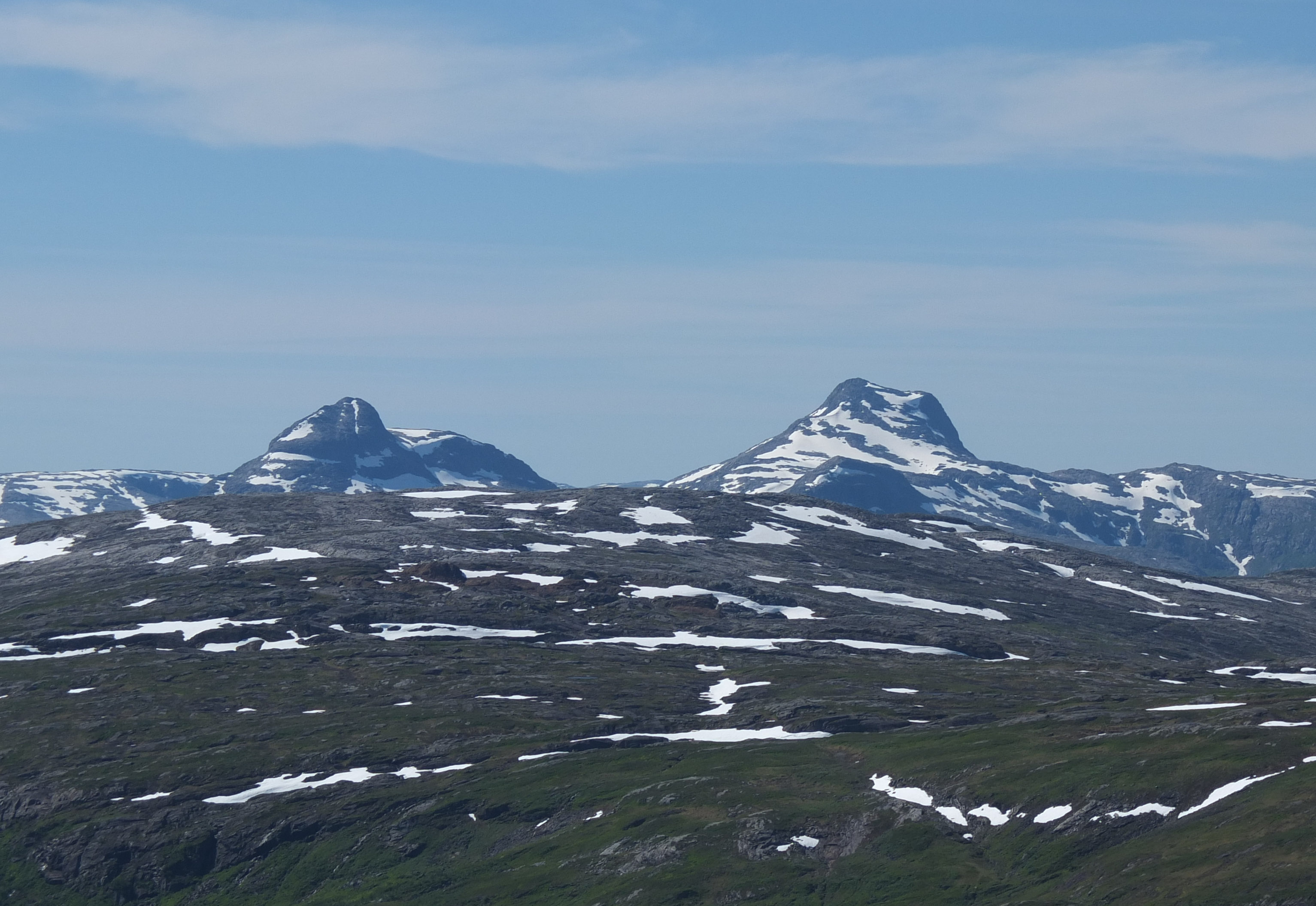 Storfinnkneet to the right, Litlfinnkneet to the left. View from Øyfjellvarden at Øyfjellet near Mosjøen